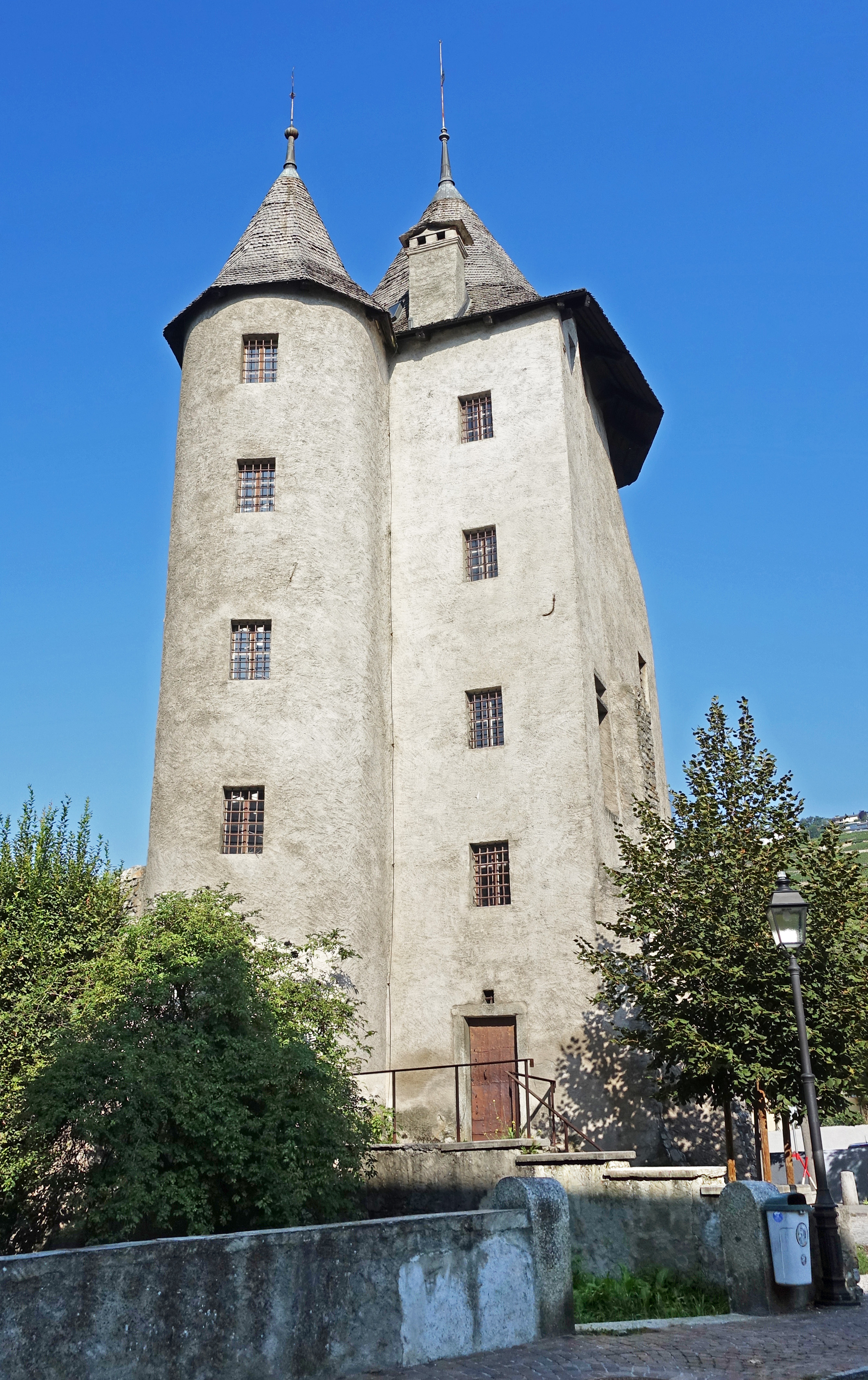 The tower Tour des Sorciers in Sion.